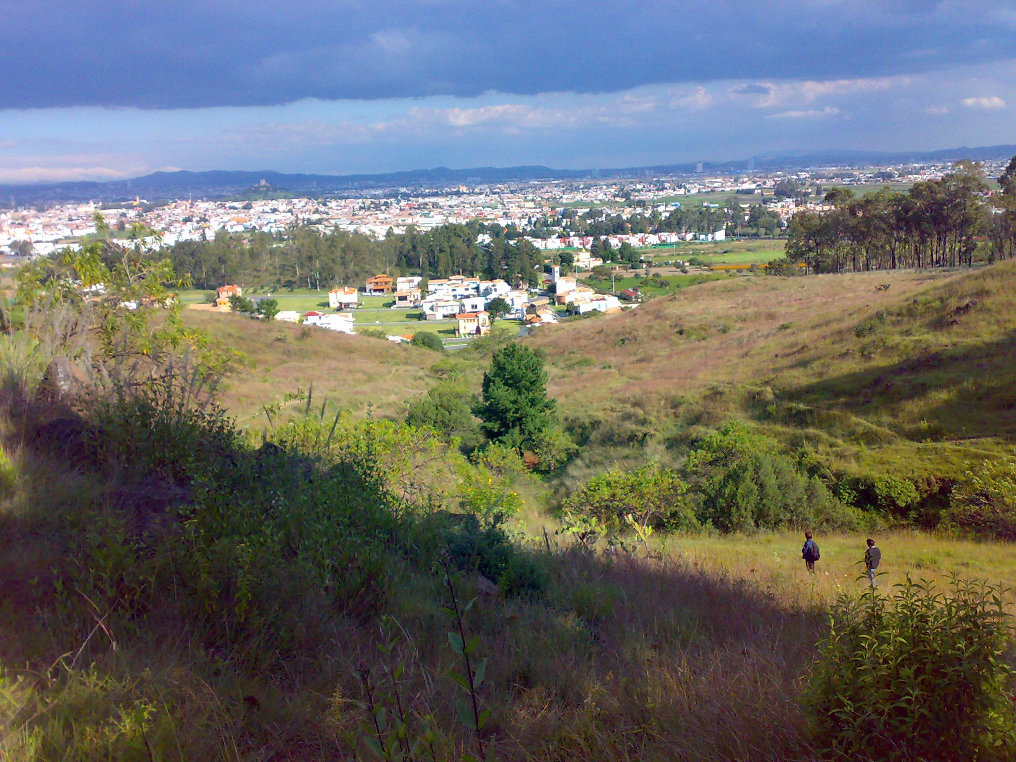 View from the "Cerro del Zapotecas"